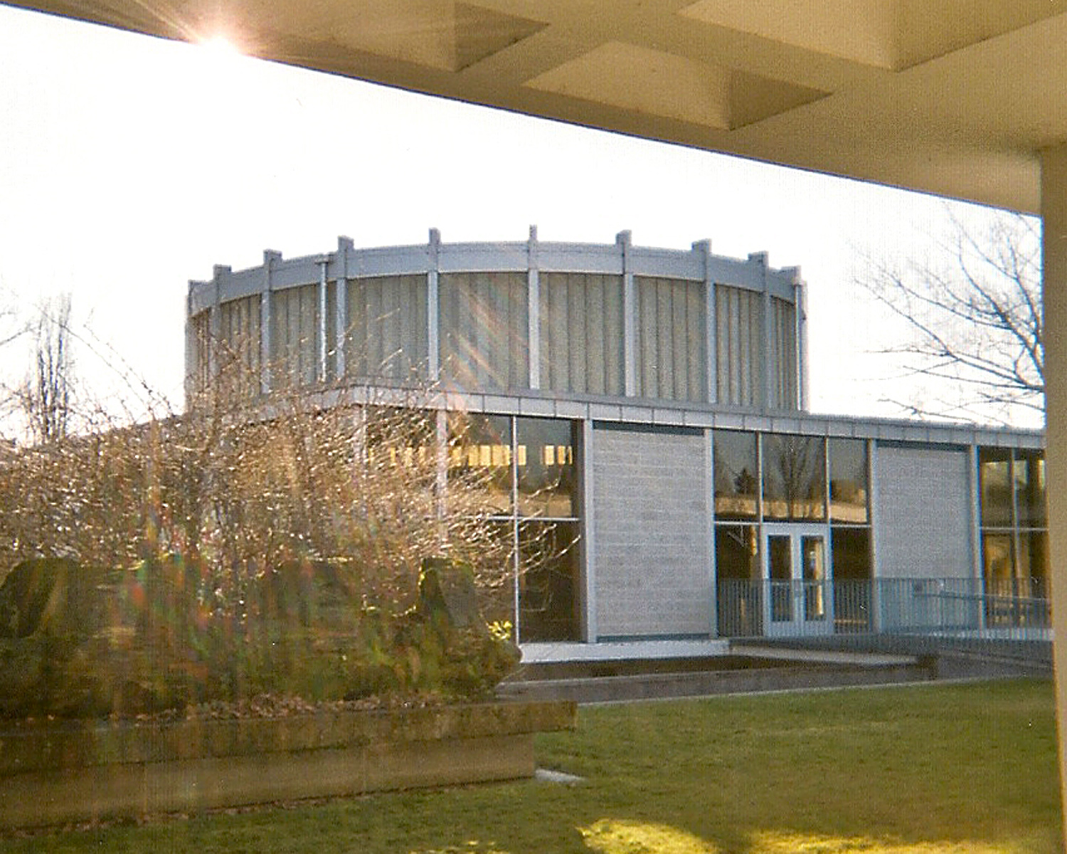 The council chamber at the 1964 Eugene City Hall